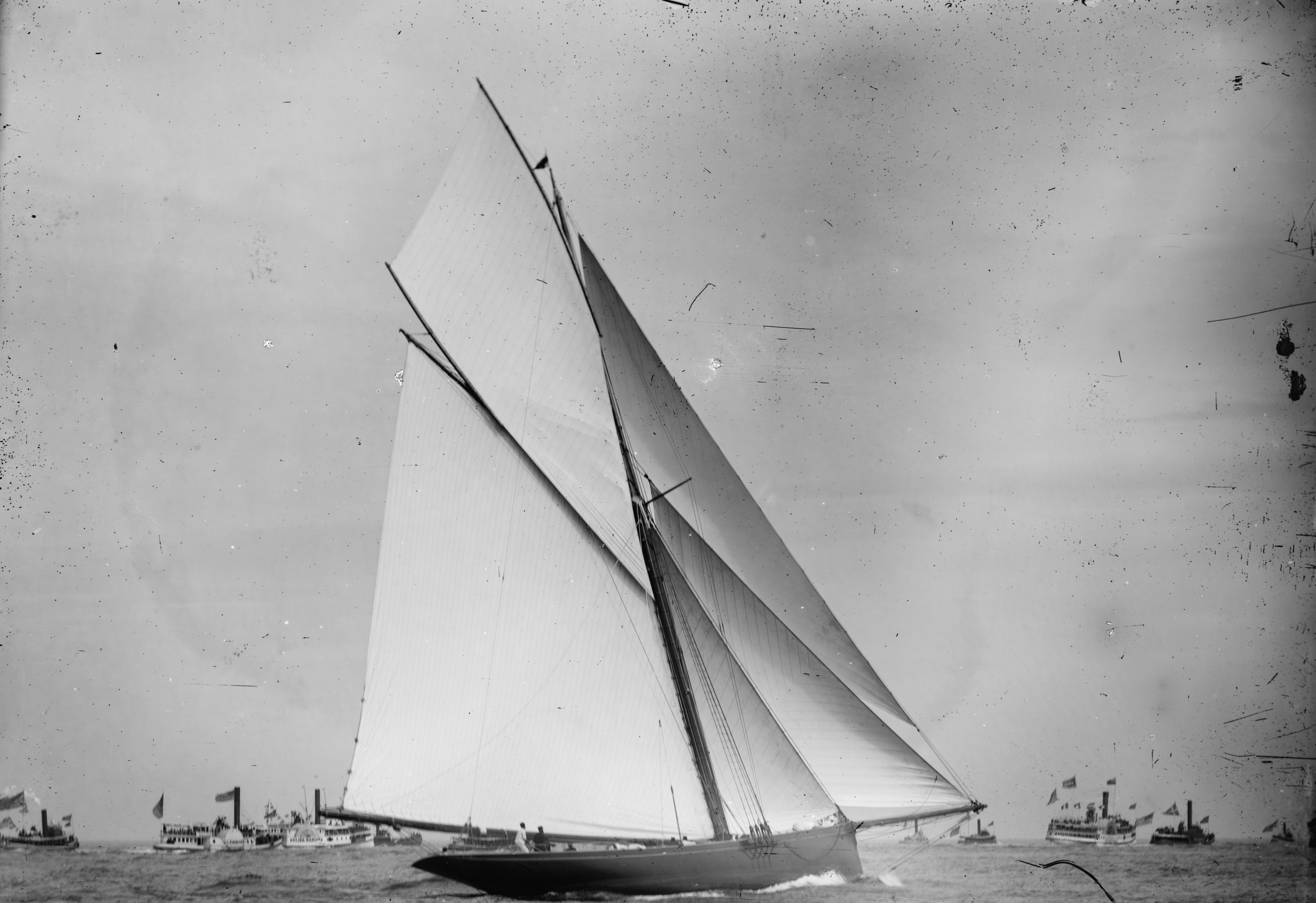 Sir Richard Sutton's cutter Genesta, 1885 challenger of the America's Cup (John Beevor-Webb design, 1884)